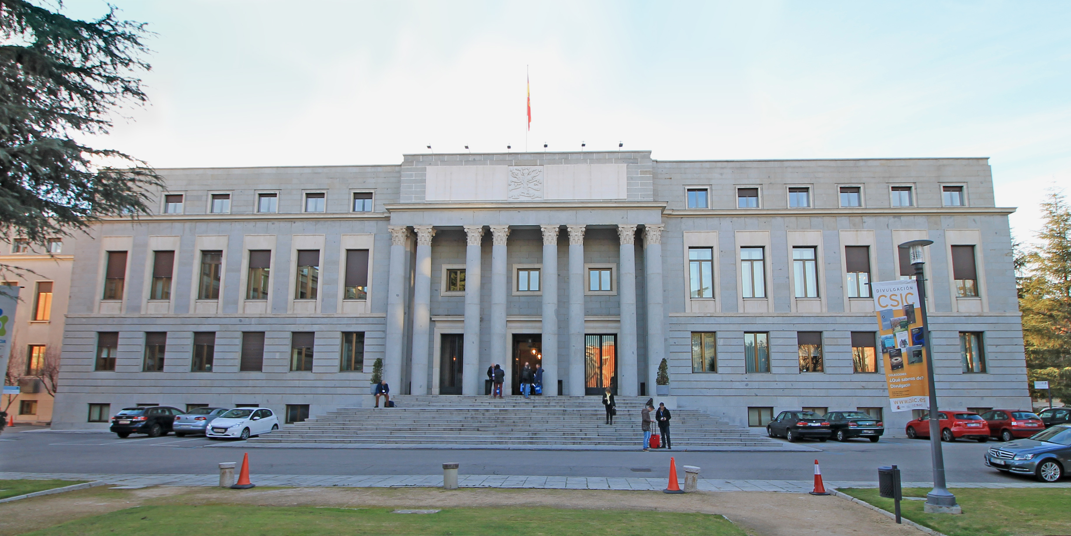 Façade of CSIC's central building, at 117 Calle de Serrano (street) in Chamartín district in Madrid (Spain). Designed in 1942 by Ricardo Fernández Vallespín and Miguel Fisac Serna, and built in 1943.